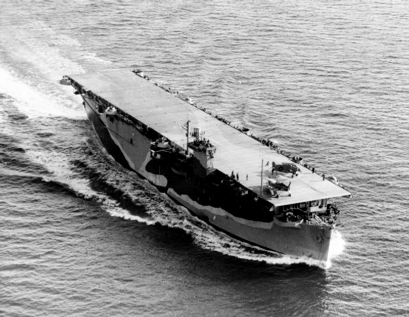 The Royal Navy escort carrier HMS Biter (D97) underway. On deck are a Grumman Martlet and a Fairey Swordfish.